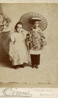 1896 photo of children in a production of The Mikado in Middletown. The names of the children are Arthur Fanshon and Edward Phillips Nickinson Another version of this photo is on page ix of this book: The Japan of Pure Invention: Gilbert and Sullivan's the Mikado by Josephine Lee, U of Minnesota Press, 2010 ISBN 081666580X